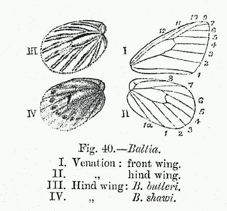 I. Baltia forewing venation II. Baltia hindwing venation III. Baltia butleri (Moore, 1882), hindwing IV. Baltia shawi = Baltia shawii (Bates, 1873), hindwing